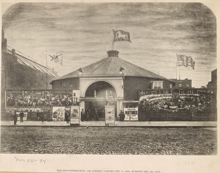 The former Hippotheatron in New York - burned down in 1872